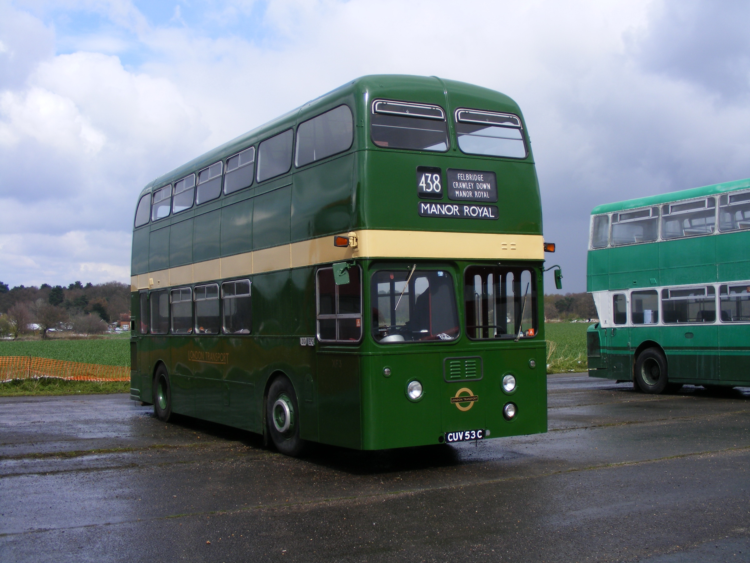 One of eight Park Royal bodied Daimler Fleetlines London Transport purchased to evaluate against 50 Leyland Atlanteans. (DVLA) Daimler ?cc Heavy Oil first registered 3 September 1965